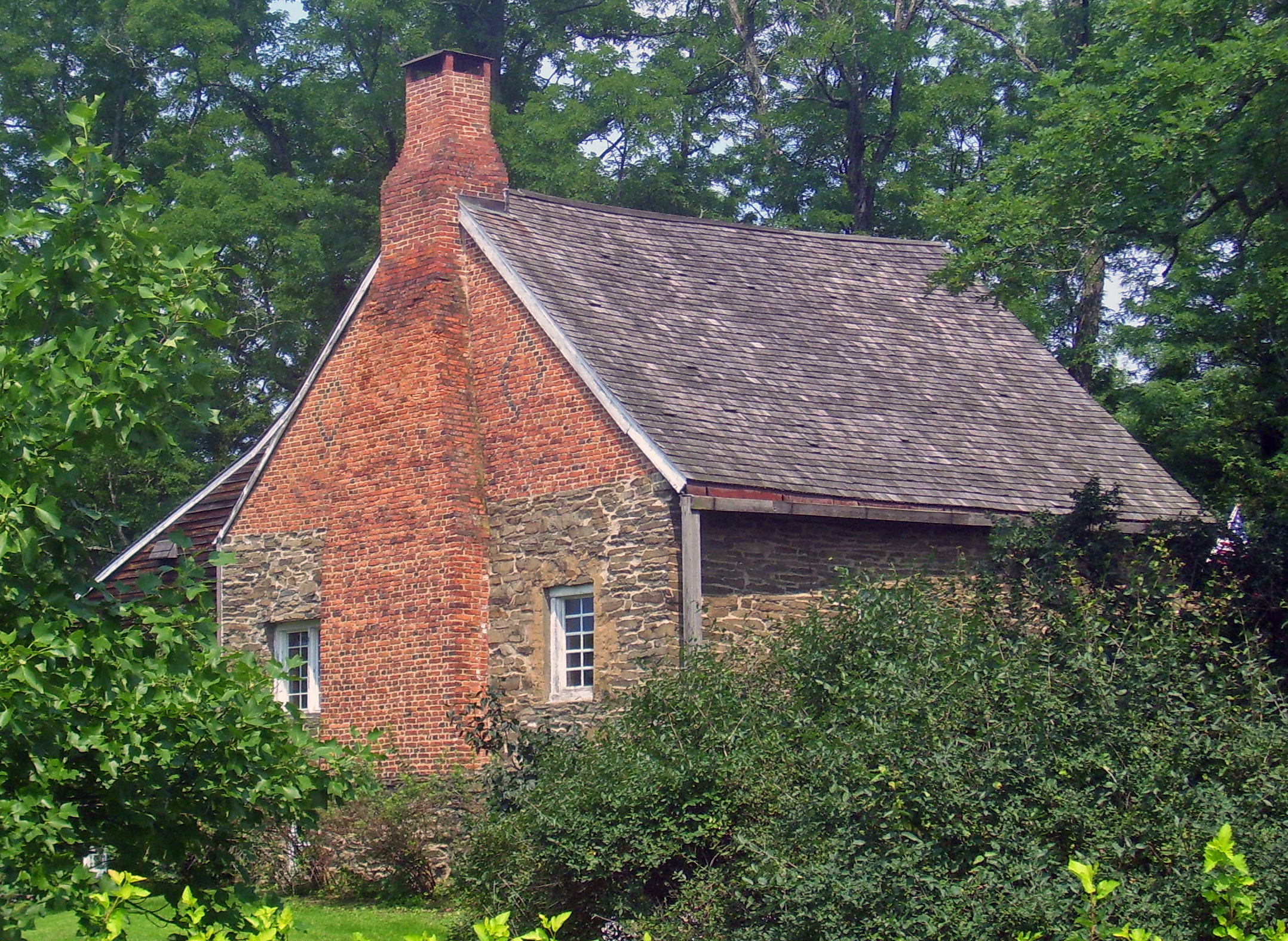 Stone Jug, contributing property to Hudson River Historic District, along NY 9G in Clermont, NY, USA